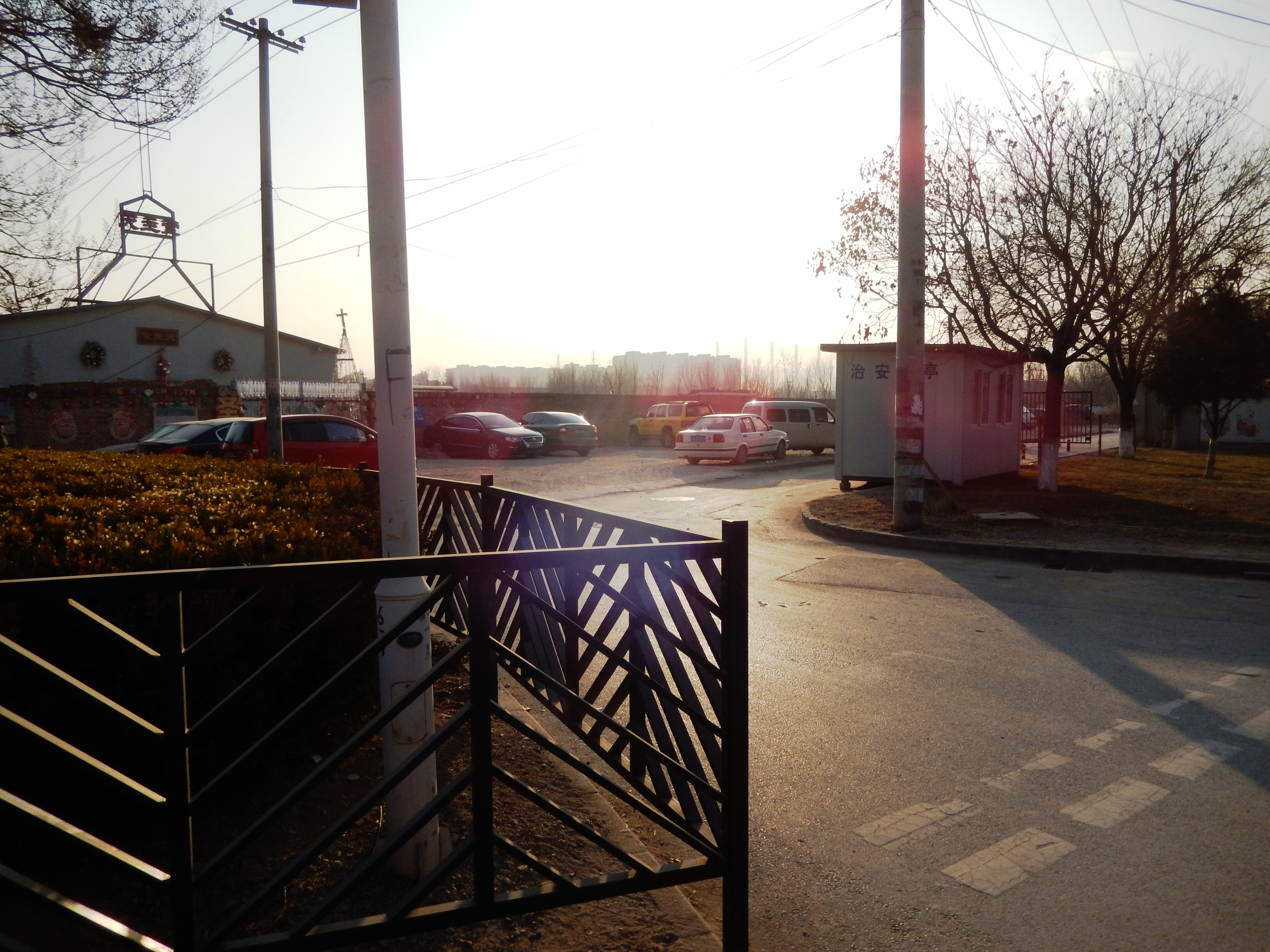 Zhengfusi Catholic Church seen from Banjing Lu (Road).